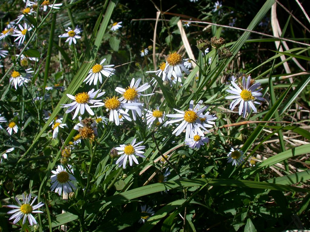 Name Aster yomena (Kitam.) Honda （ヨメナ） Family Asteraceae Date;2006,10;Tanabe city, Wakayama prefecture, Japan Author;Keisotyo